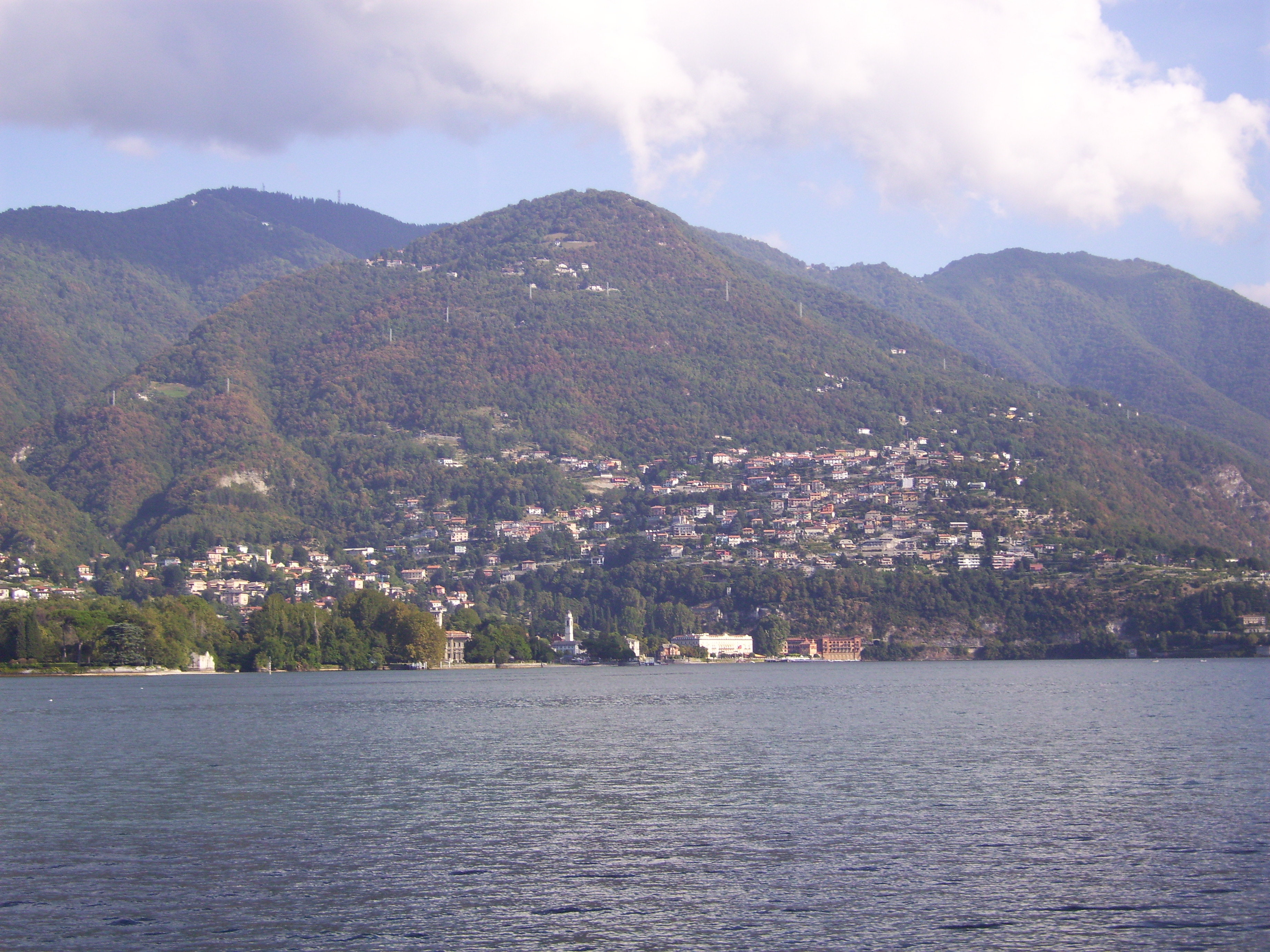 Cernobbio and Rovenna, with Mount Bisbino in the background, as seen from Piazzetta Baratelli